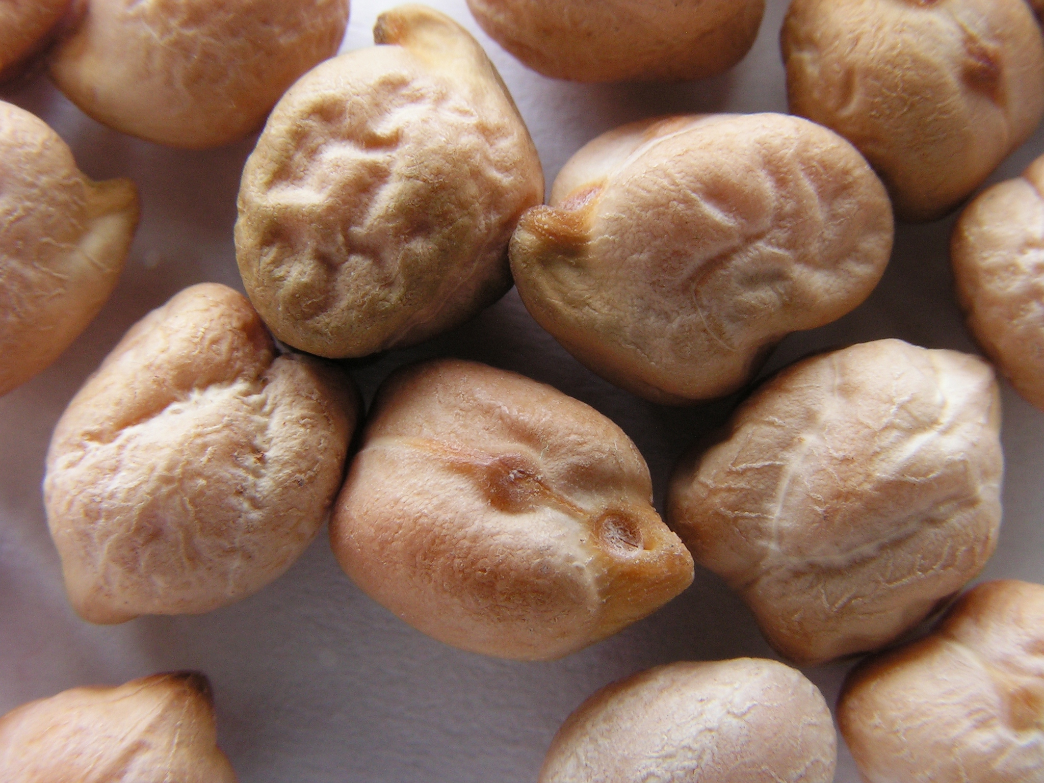 Chickpea.